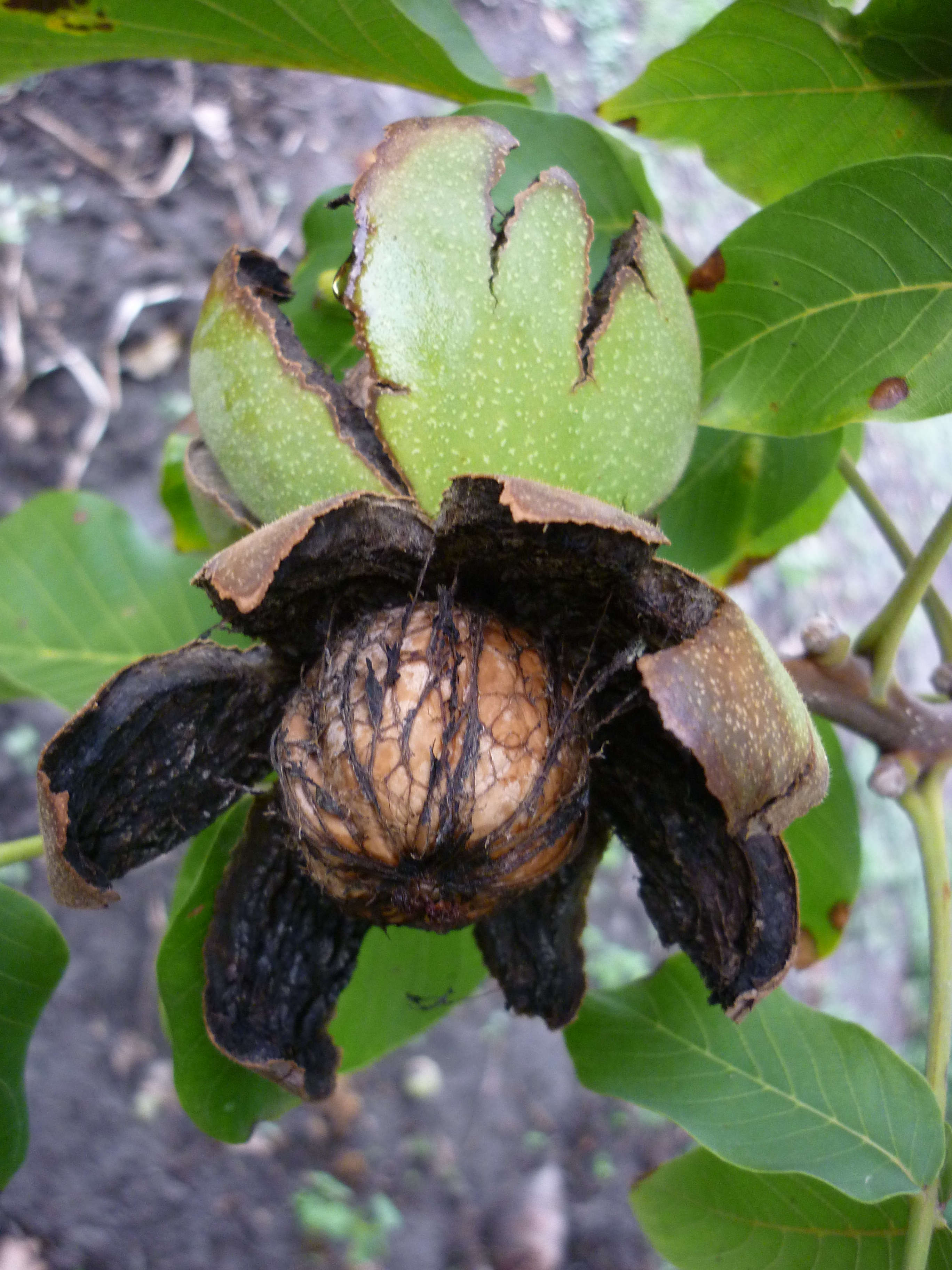 Juglans regia